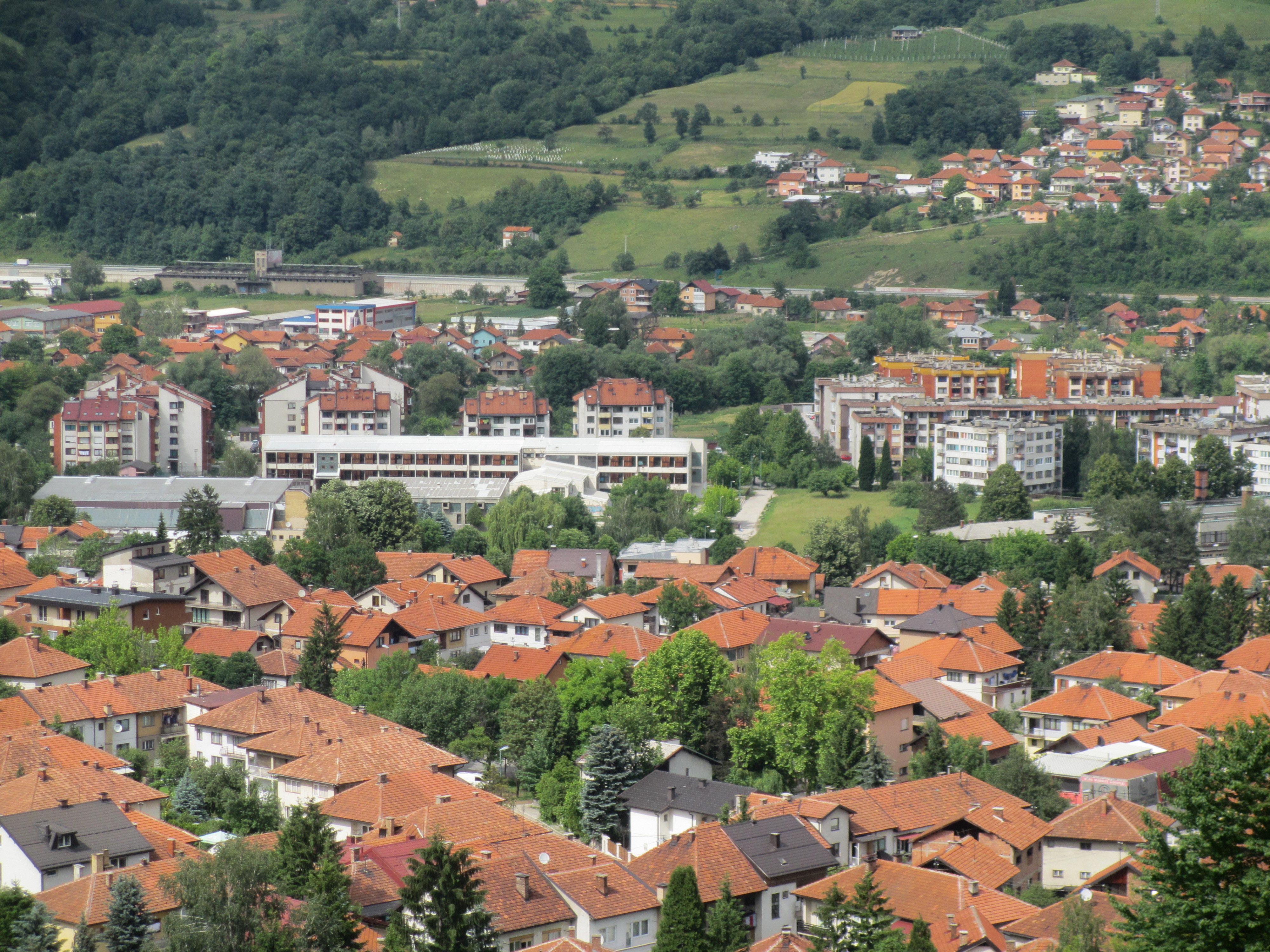 Visoko, view from Paljike